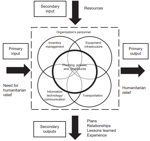 De